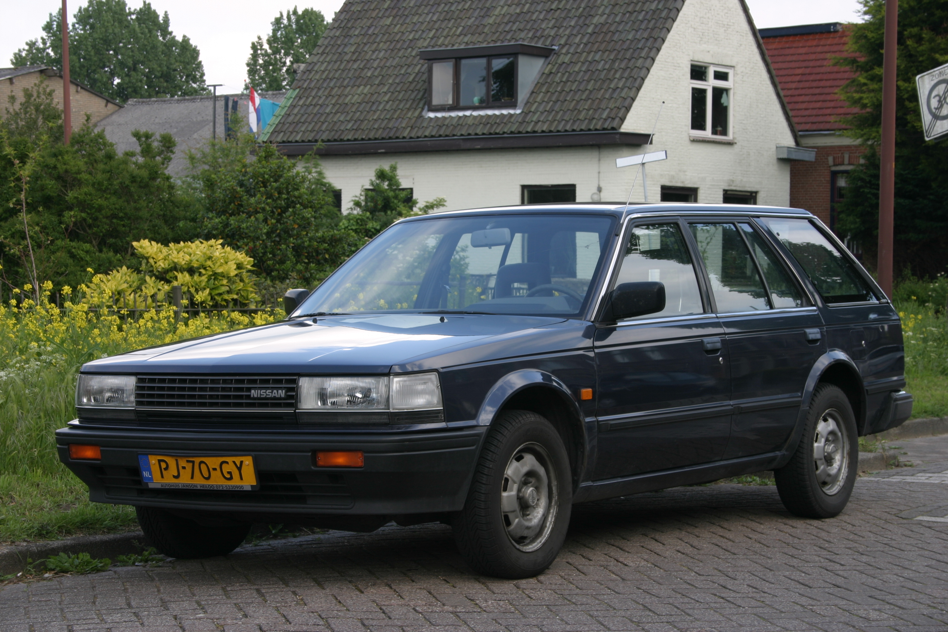 1986 Nissan Bluebird Wagon 2.0 GL.